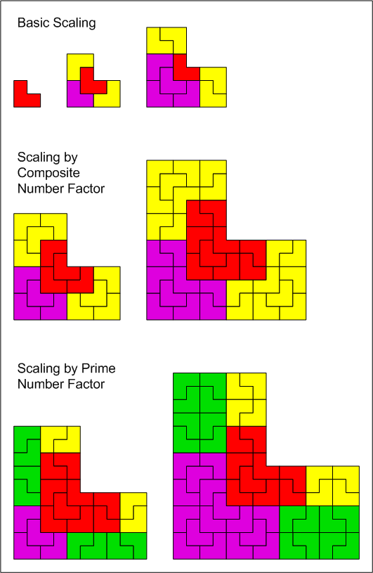 Self tessellation of a bent triple square